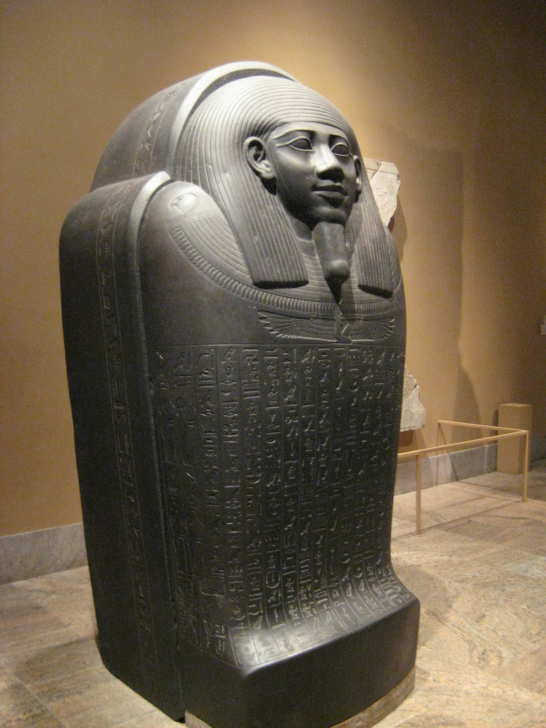 Horkhebit was a "Royal Seal Bearer, Sole Companion, Chief Priest of the Shrines of Upper and Lower Egypt, and Overseer of the Cabinet" in the early 26th Saite dynasty. His tomb was a great shaft over sixty feet deep sunk into the desert and solid limestone bedrock in the Late Period cemetery that covers most of the area east of the Djoser complex at Saqqara. When the tomb was excavated by the Egyptian government in 1902, the sarcophagus contained the remains of a badly decomposed gilded cedar coffin, and a mummy that wore a mask of gilded silver, gold finger and toe stalls, and numerous small amulets. Other canopic and shawabti equipment accompanied the burial. The finds went to the Egyptian Museum, Cairo, while this sarcophagus was purchased from the Egyptian government by the Metropolitan Museum. The sarcophagus is one of the masterpieces of late period Egyptian hard-stone carving. The long text on the lid comes from the Book of the Dead. (Source: Metropolitan museum website)